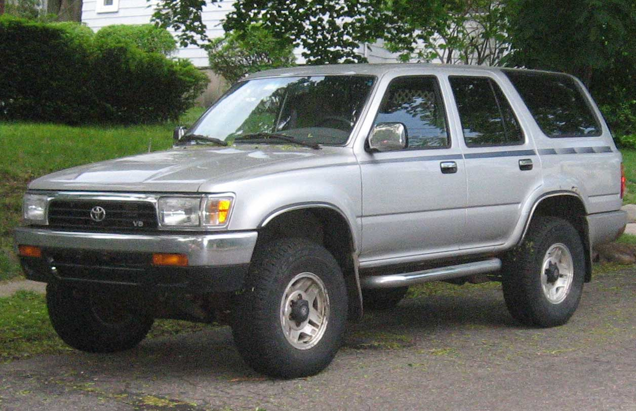 1992-1995 Toyota 4Runner photographed in Watertown, Massachusetts, USA.